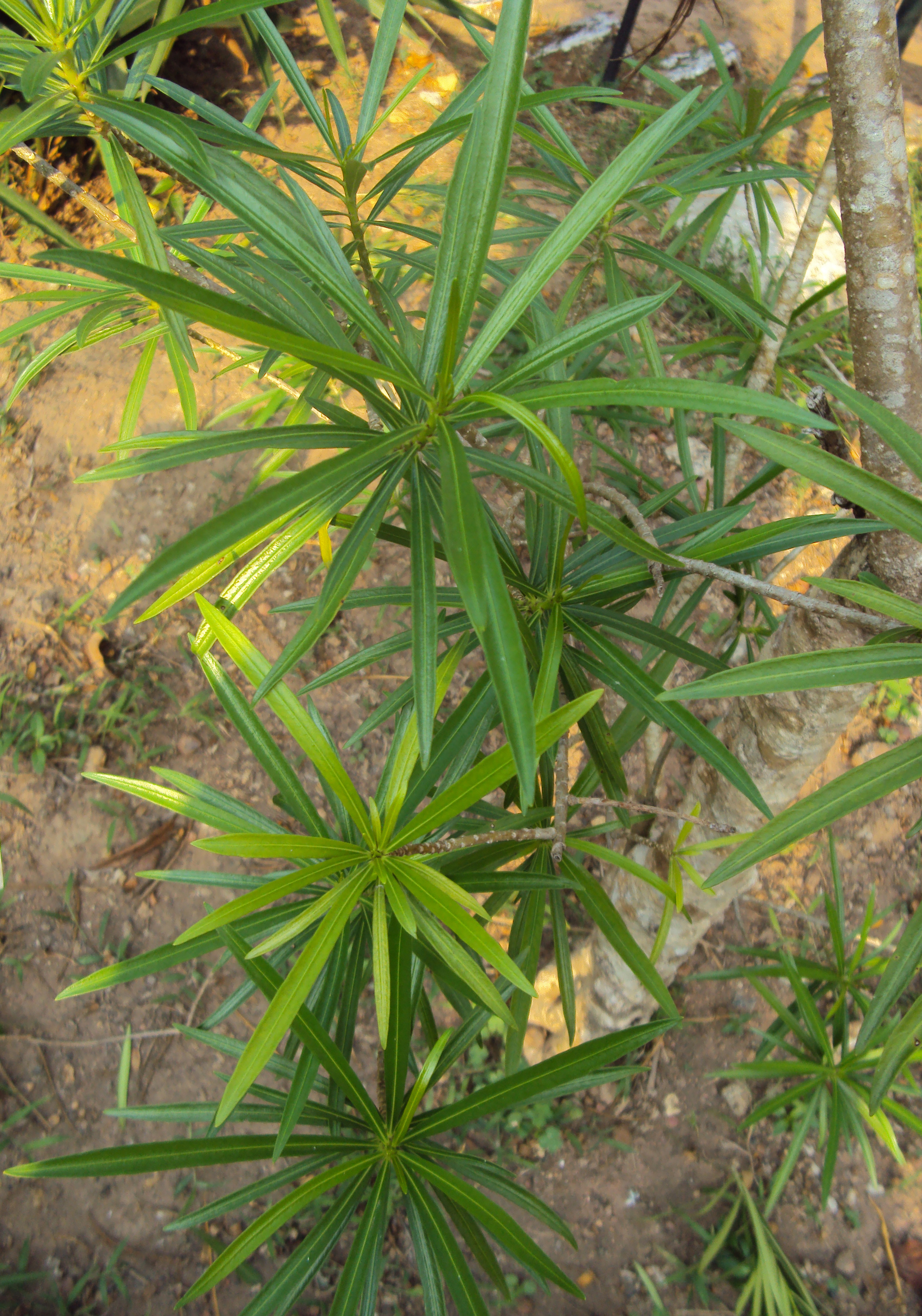 മഞ്ഞരളി.